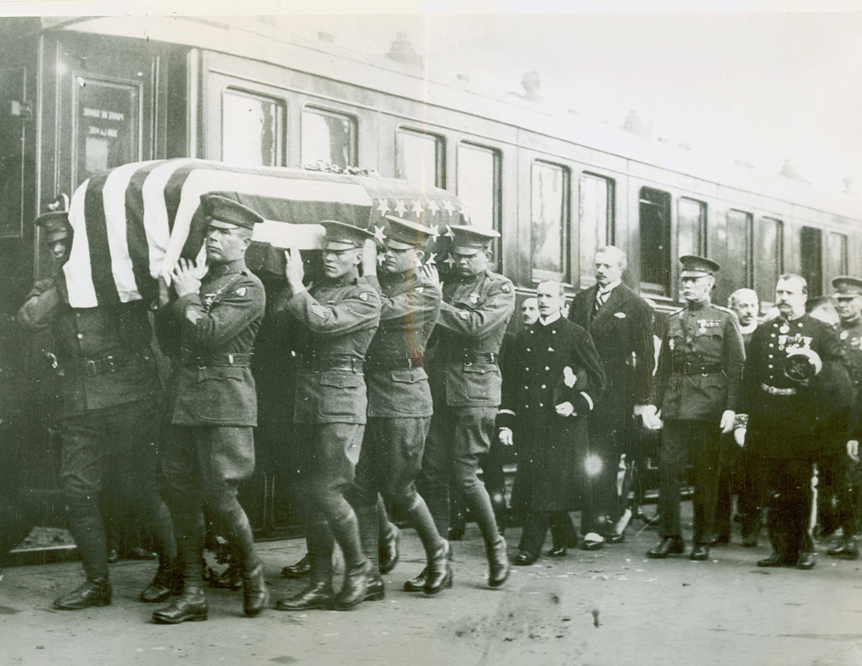 The body of the Unknown Soldier chosen by Sergeant Edward F. Younger is loaded on the train in France.(World War I Signal Corps Collection).